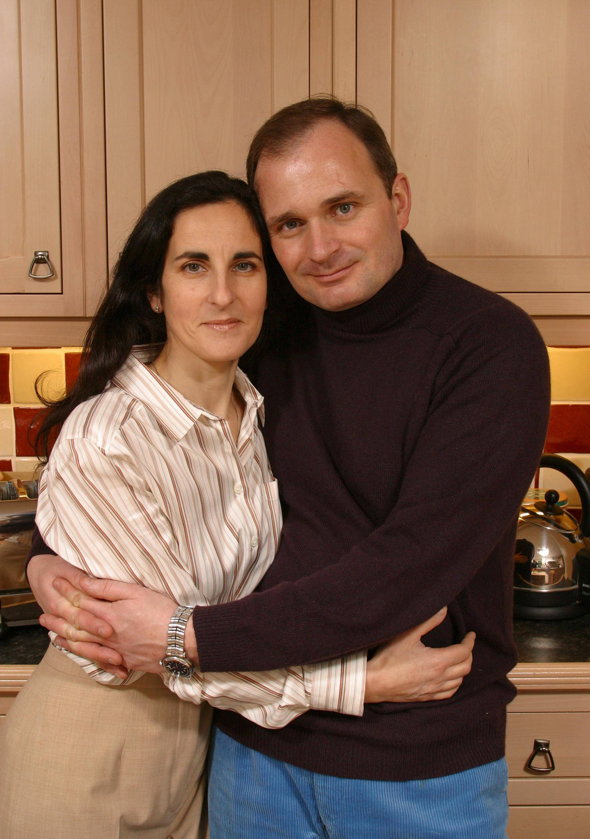 Made by ourselves, Charles and Diana Ingram.